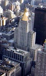 Looking south and down at NY Life Building. Second picture for the entry.